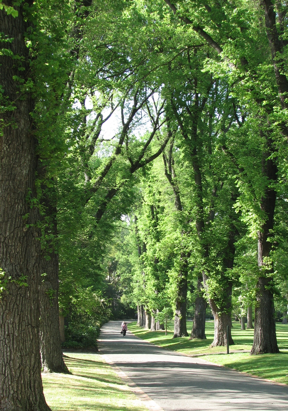 Avenue of English Elms (Ulmus minor var. vulgaris (syn. U. procera) in Fitzroy Gardens, Melbourne.